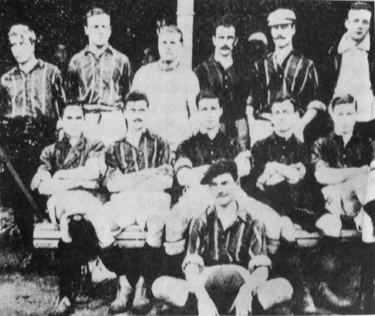 Lomas Athletic Club football squad in 1895. That team won its third consecutive title that year.